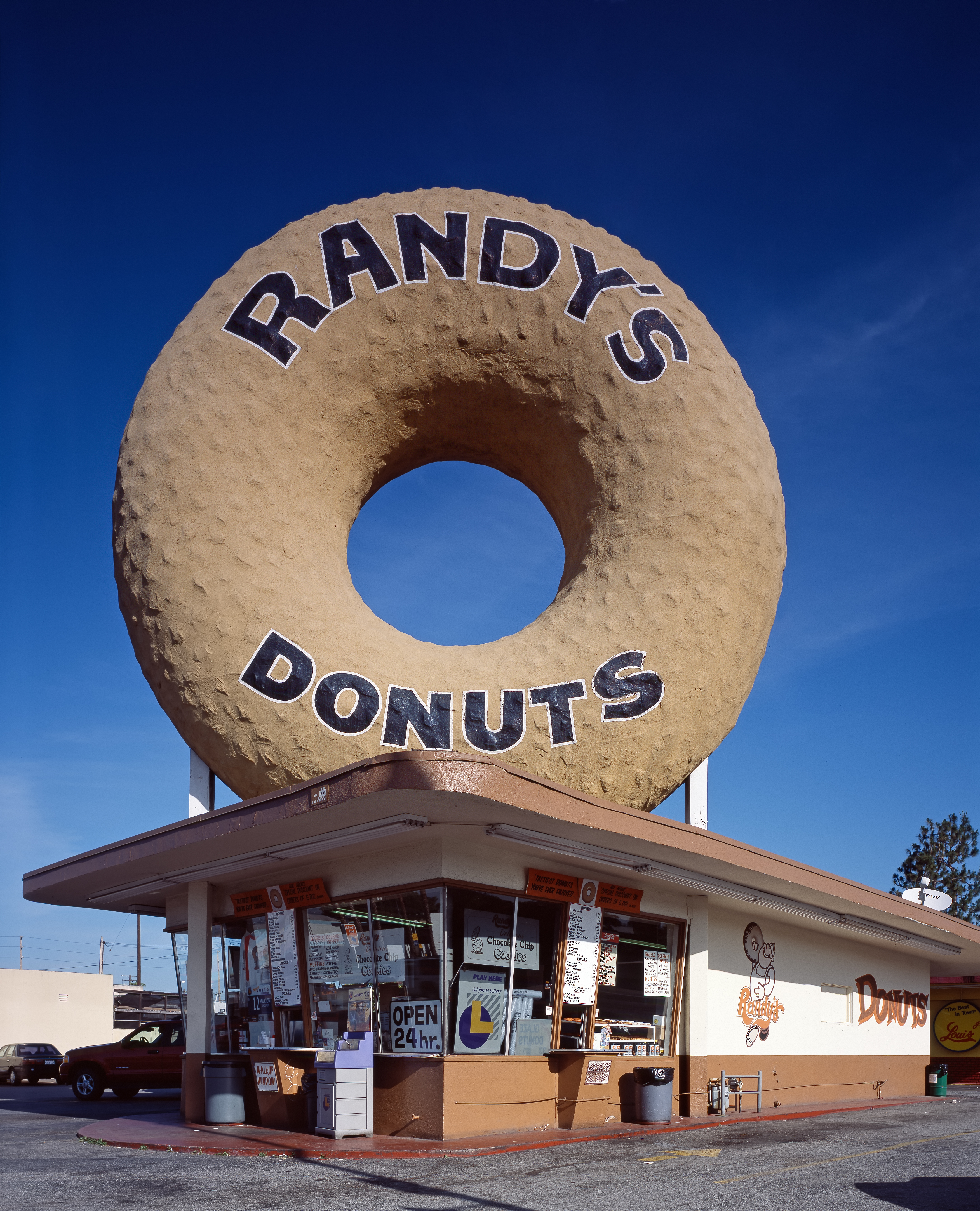 Randy's Donuts, colloquially known as "The Big O", is a donut shop in Los Angeles, California. Made famous by the 32.5-foot (9.9 m) donut on its roof. The building opened in 1954. It is recognizable due to its many appearances in movies, music videos, and television. Courtesy of the Historic American Buildings Survey, Library of Congress, Washington, D. C.